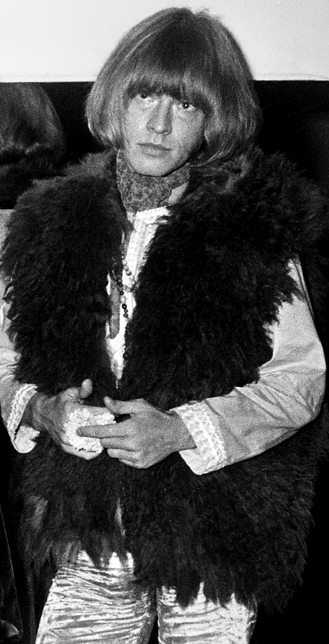 Brian Jones from The Rolling Stones at Concertgebouw in Amsterdam, September 1, 1967. This is a detail and retouched version of the original image from the Nationaal Archief. It was taken during a meeting with Maharish Makesh Yogi.